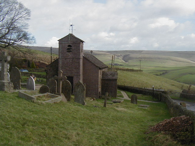 St Stephen's Chapel, Macclesfield Forest, Cheshire, seen from the west